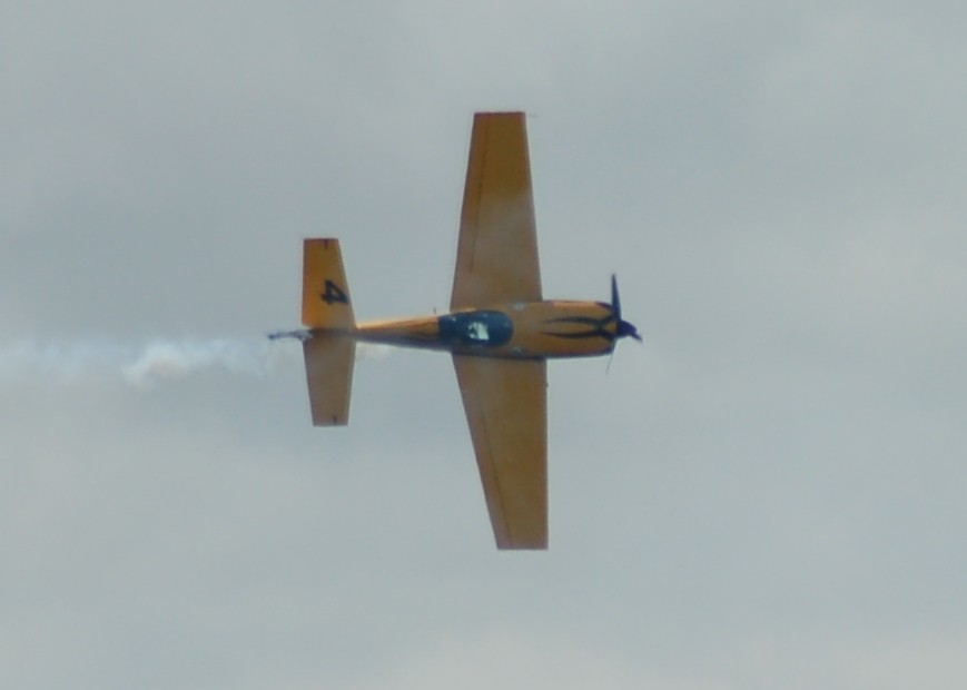 German Aviator Klaus Schrodt racing in Perth, Western Australia.